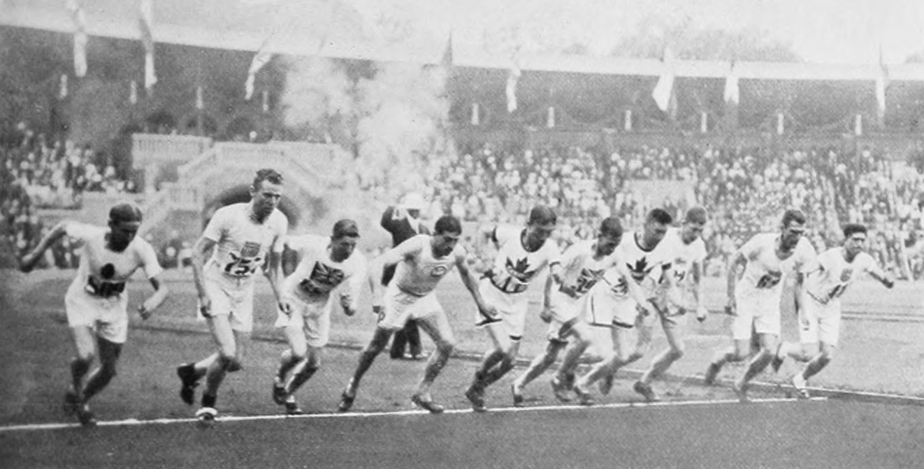 The start of the men's 5000 metre final at the 1912 Summer Olympics.